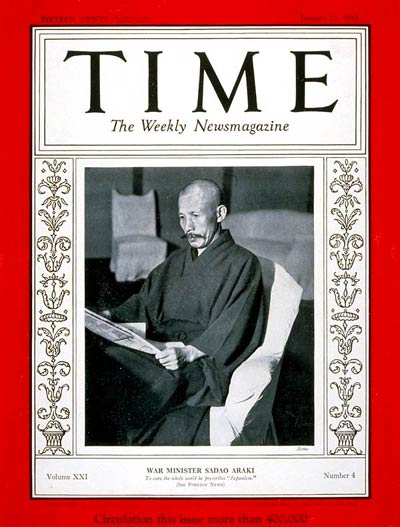 Japanese Minister of War Sadao Araki (1877-1966) on the cover of TIME Magazine January 23, 1933 issue.